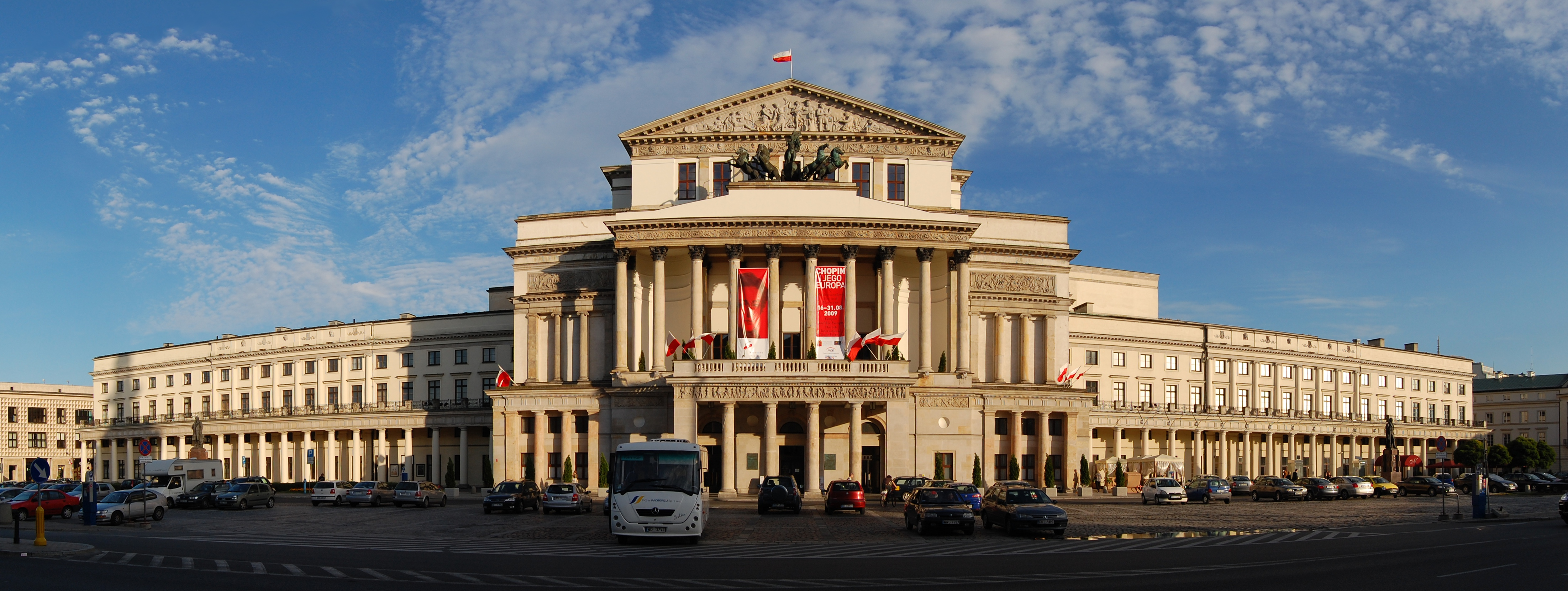 Great Theatre in Warsaw, Poland.